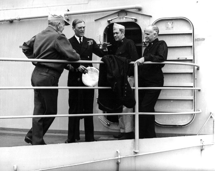 Admiral Halsey and Vice Admiral Vian aboard USS Missouri, circa May-Aug 1945; the other officers were Commander William Kitchell and Captain Joel Boone Copied from United States National Archives (id 80-G-335794), via vast majority of the digital images in the Archival Research Catalog (ARC) are in the public domain. Therefore, no written permission is required to use them. We would appreciate your crediting the National Archives and Records Administration as the original source. For the few images that remain copyrighted, please read the instructions noted in the "Access Restrictions" field of each ARC record." No access restricted field noted, therefore assumed to be in public domain.